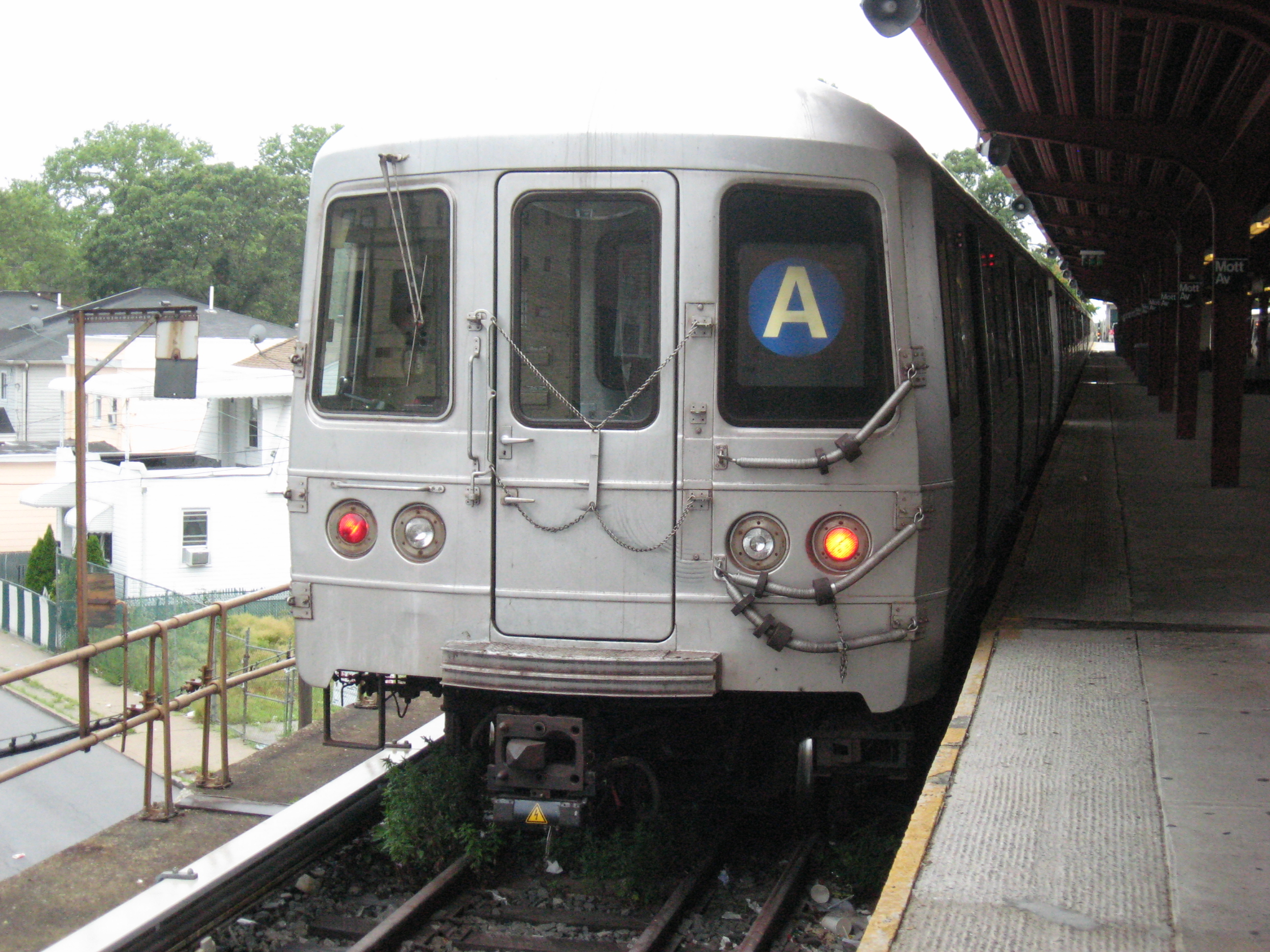 An R46 A train at Far Rockaway – Mott Avenue station.